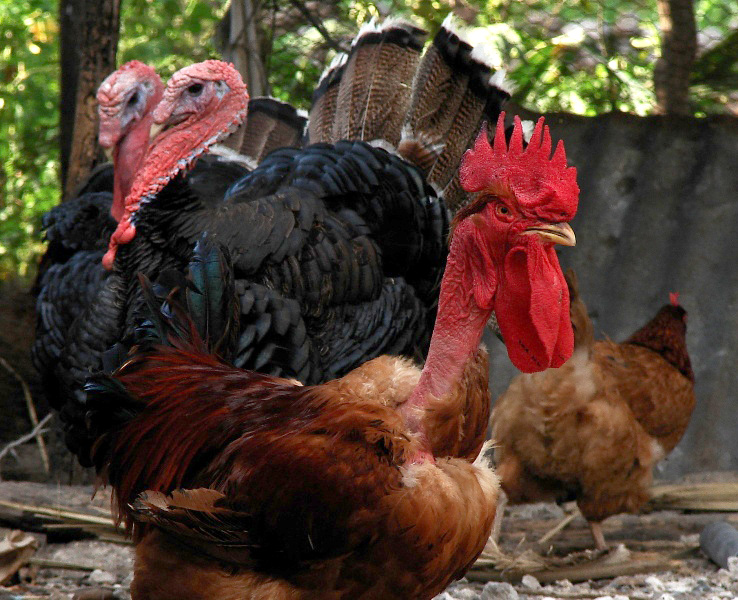 A Naked Neck rooster (sometimes called a Turken) in foreground, domesticated Turkeys in background.